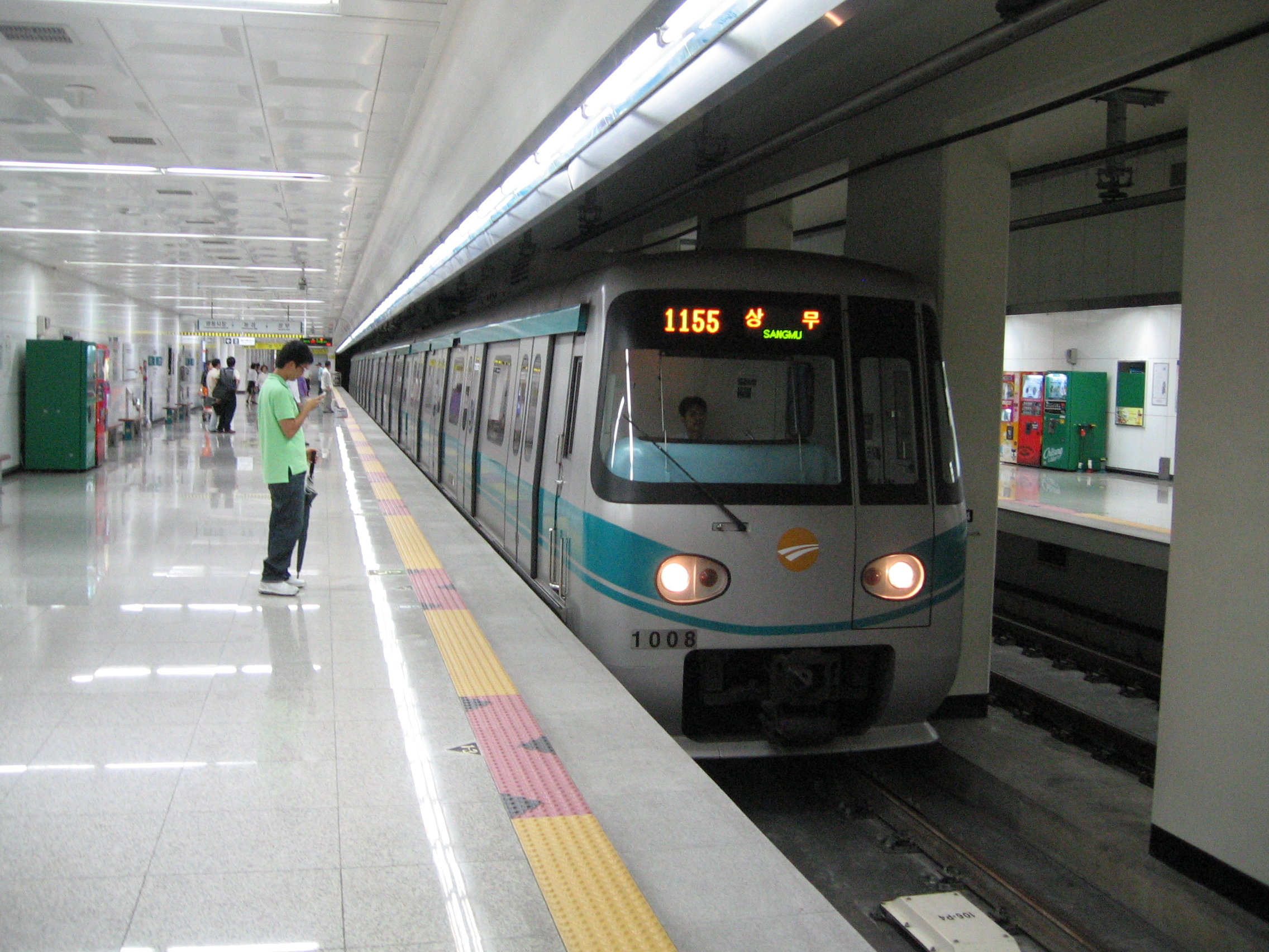 The subway in Gwangju at Geumnamro 4-ga station(sic, possibly Geumnamno 5-ga Station due to platform style, added by LERK (Talk / Contributions / Mail))